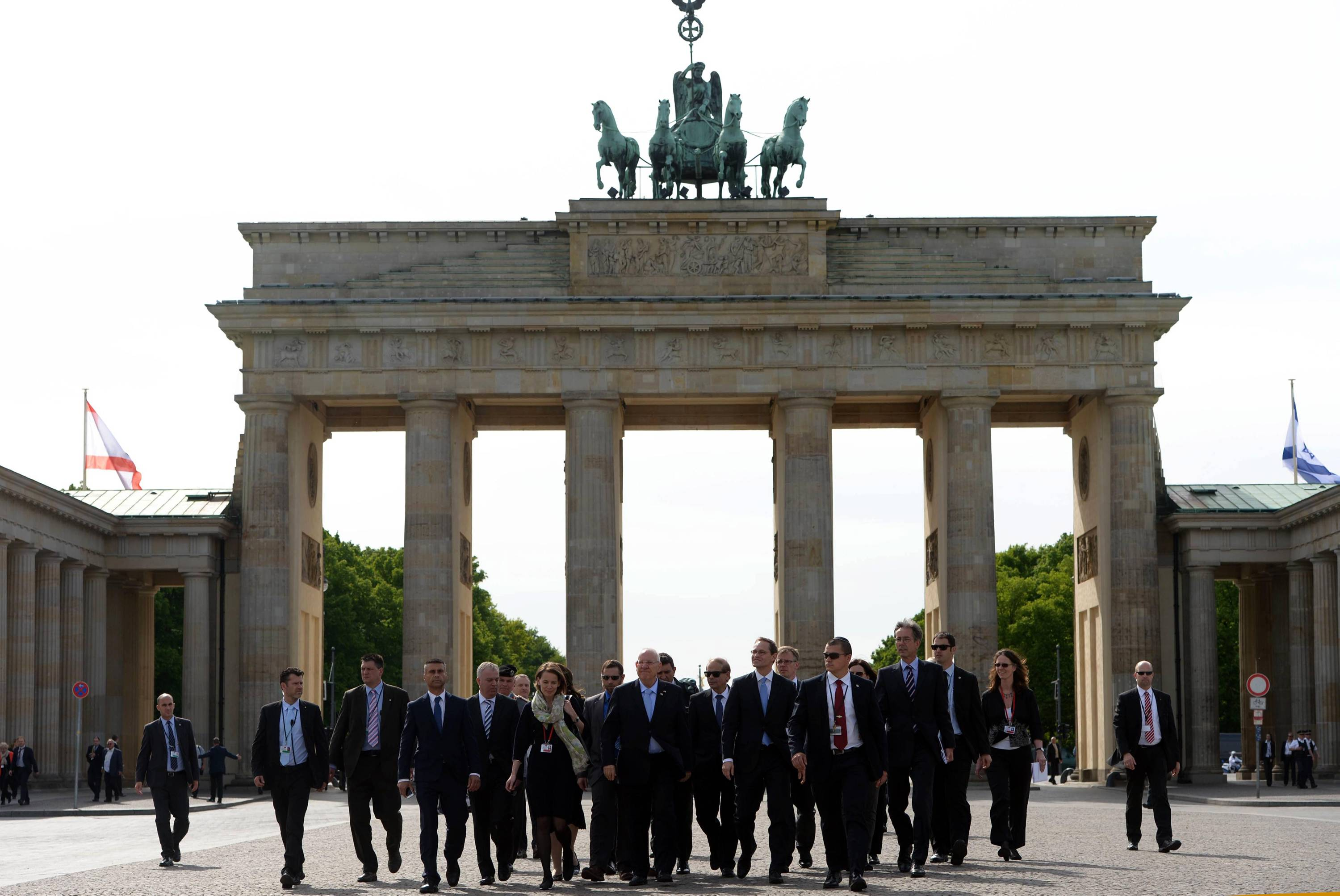 The President of the State of Israel, Reuven Rivlin, walked with the Mayor of Berlin through the Brandenburg Gate and signed the Golden Book of Berlin and then visited the Young Congress and spoke. Monday, May 11, 2015. Photo: Amos Ben Gershom / GPO.